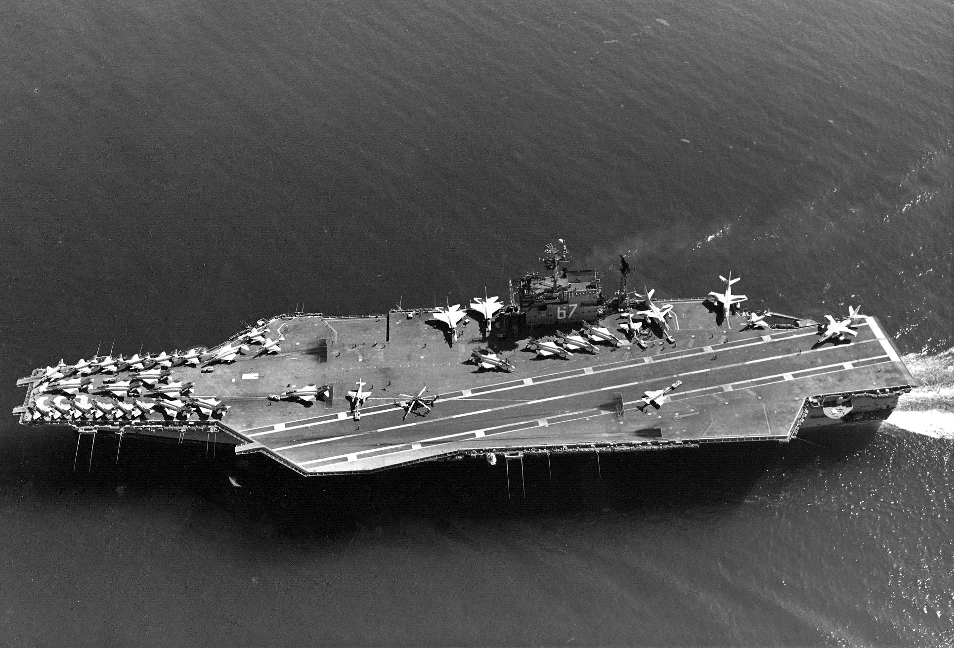 A U.S. Navy aircraft carrier USS John F. Kennedy (CVA-67) underway in the Atlantic Ocean during her shakedown cruise between 2 November and 16 December 1968. On deck are aircraft of Carrier Air Wing 1 (CVW-1). Note that the Mk 25 BPDMS Sea Sparrow-launchers have not yet been installed.